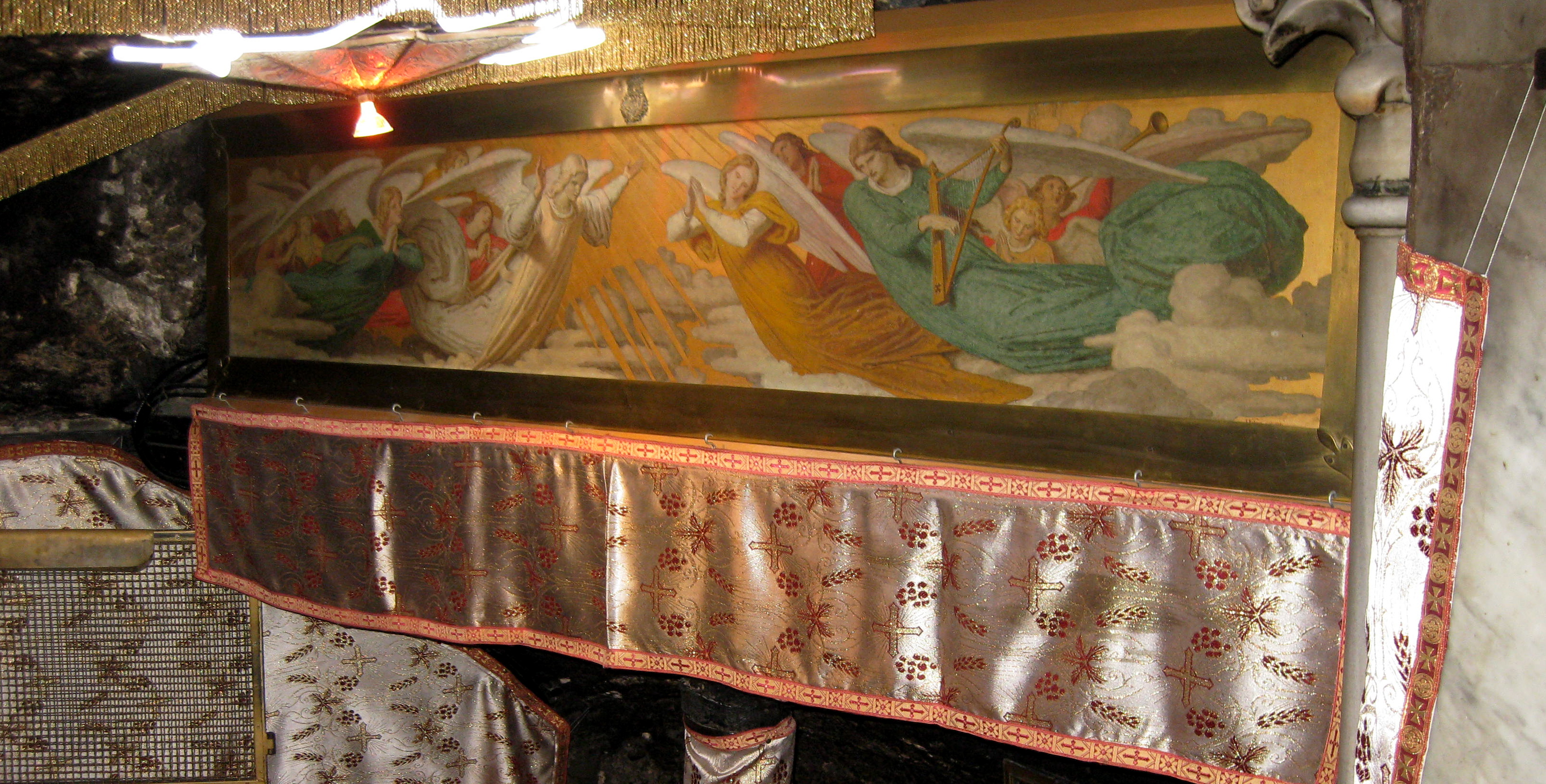 Grotto of the Nativity. Icon above Manger. Bethlehem. Holy Land.